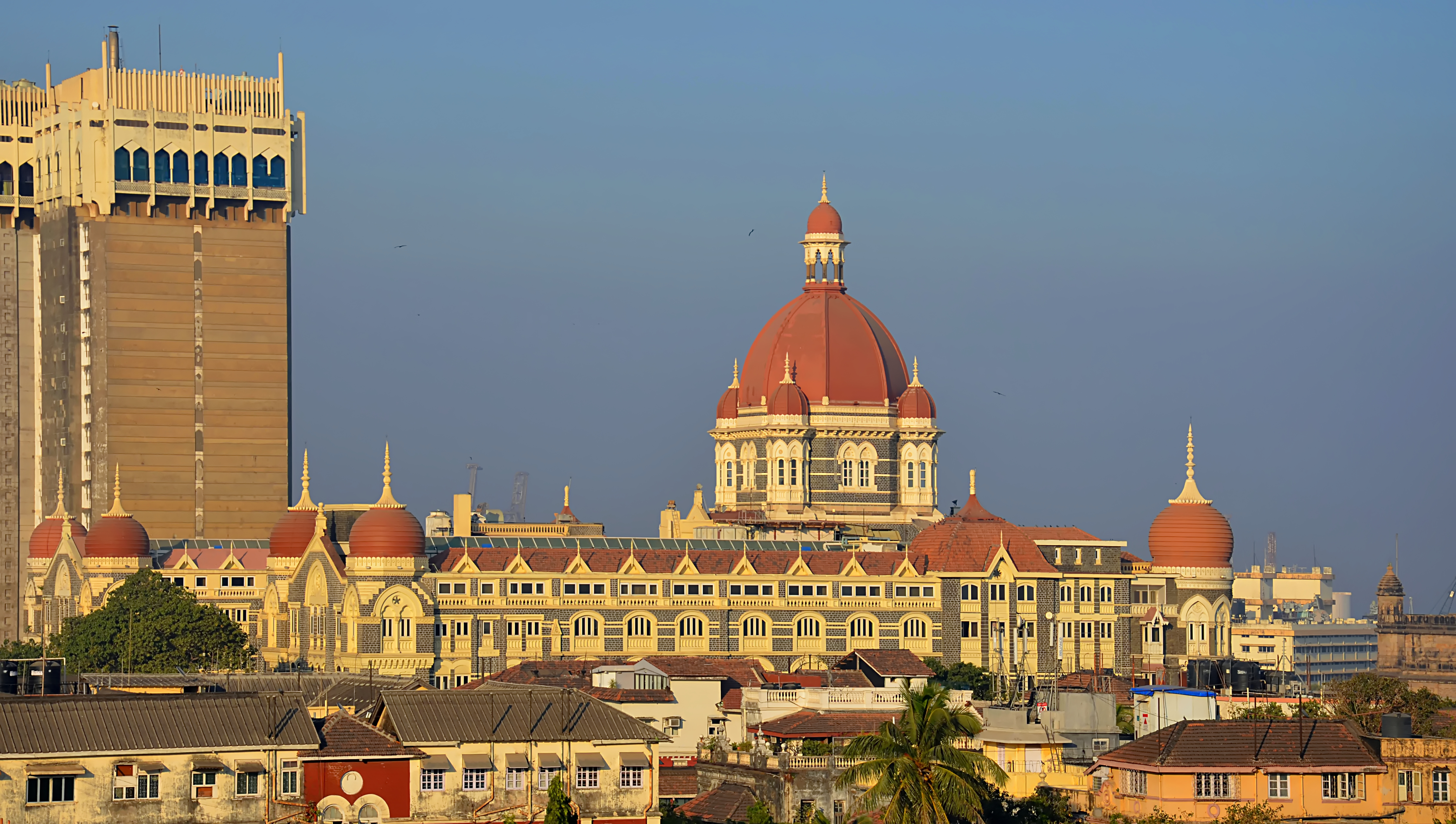 Taj Mahal Palace Hotel, Mumbai